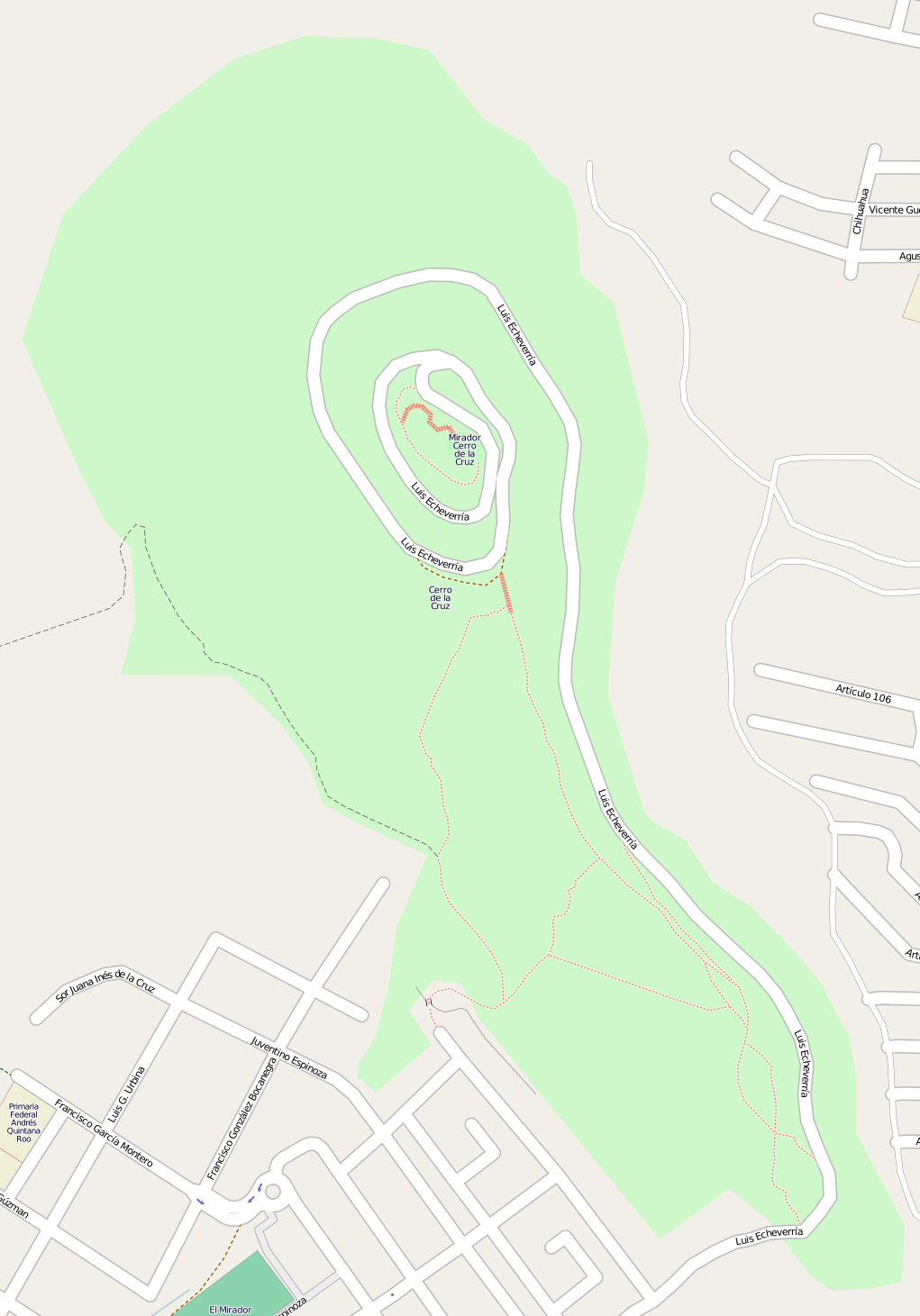 This map may be incomplete, and may contain errors. Don't rely solely on it for navigation.